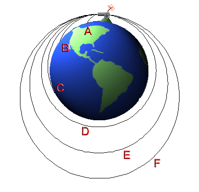 Illustration of Orbits using Cannonballs I created this drawing myself - FrankH 06:31, 12 Jan 2005 (UTC) If the cannon fires its ball with a low initial velocity, the trajectory of the ball will curve downwards and hit the ground (A). As the firing velocity is increased, the cannonball will hit the ground further (B) and further (C) away from the cannon, because while the ball is still falling towards the ground, the ground is curving away from it. If the cannonball is fired with sufficient velocity, the ground will curve away from the ball at the same rate as the ball falls — it is now in orbit (D). The orbit may be circular like (D) or if the firing velocity is increased even more, the orbit may become more (E) and more (F) elliptical. At a certain even faster velocity (called the escape velocity) the motion changes from an elliptical orbit to a parabola, and will go off indefinitely and never return. At faster velocities, the orbit shape will become a hyperbola.